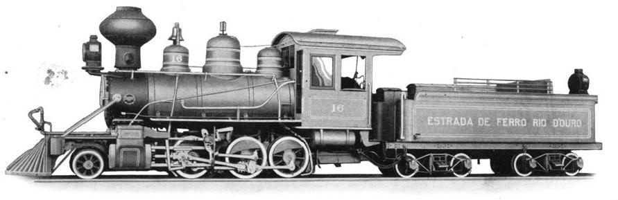 Locomotive No 16 the E.F. Rio d'Ouro of publishing the book The Baldwin Locomotive Works - A Baldwin in Brazil, 1922 pg. 36